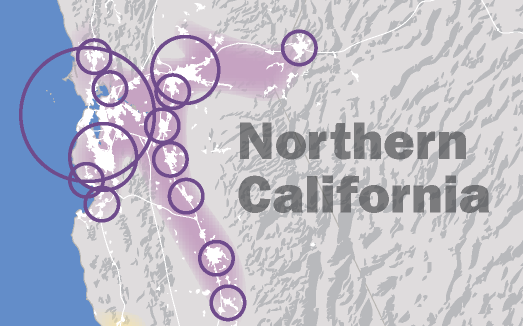 This map, created by the Regional Plan Association, illustrates the Northern California megaregion